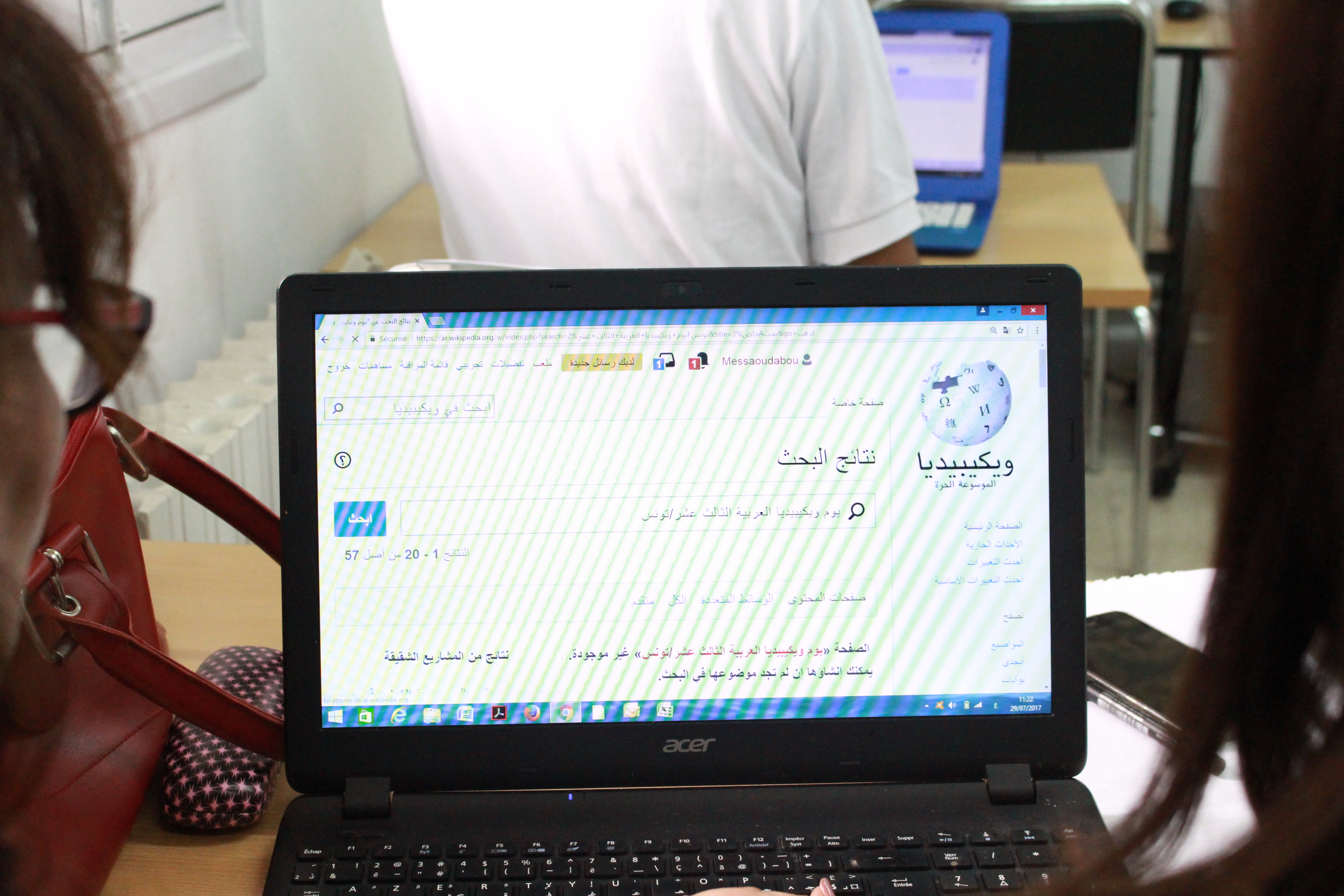 Arabic Wikipedia day 13 in Tunisia